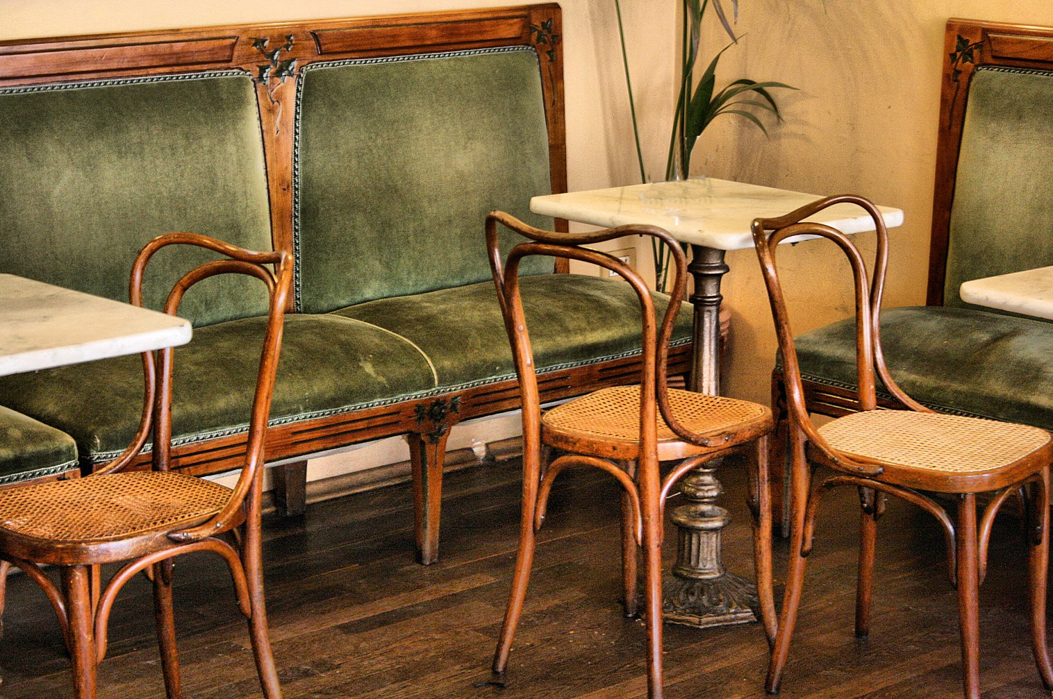 Inside view of historical Caffè Meletti, Ascoli Piceno, Marche, Italy.